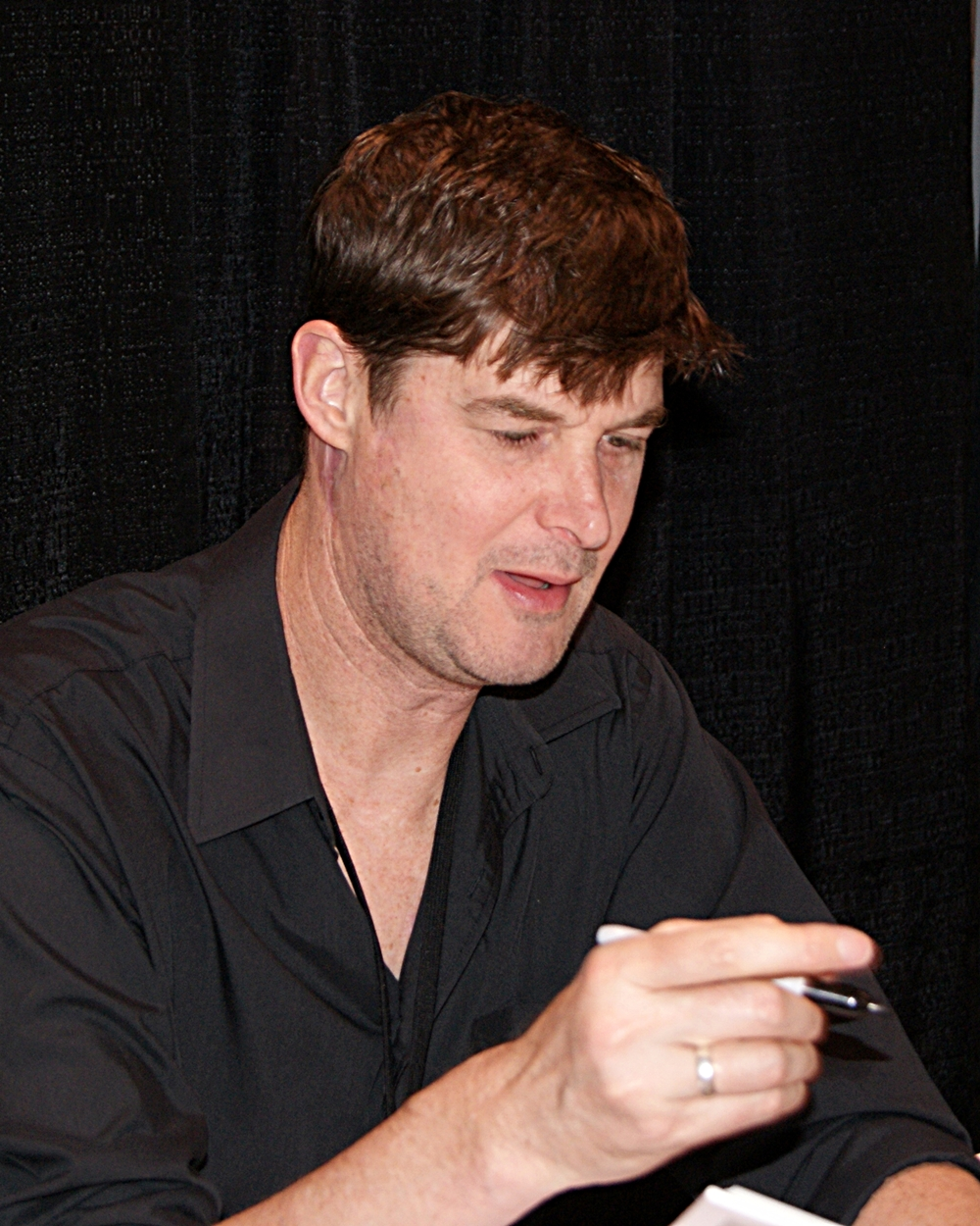 Douglas TenNapel, born 1967 in Denair, California, is an American musician, animator, Eisner Award-winning artist, and writer. He is best known for creating Earthworm Jim, a character that spawned a video game, cartoon series, and toy line. Photo was taken on at the Calgary Comic & Entertainment Expo (BMO Centre, Calgary, Alberta, Canada).